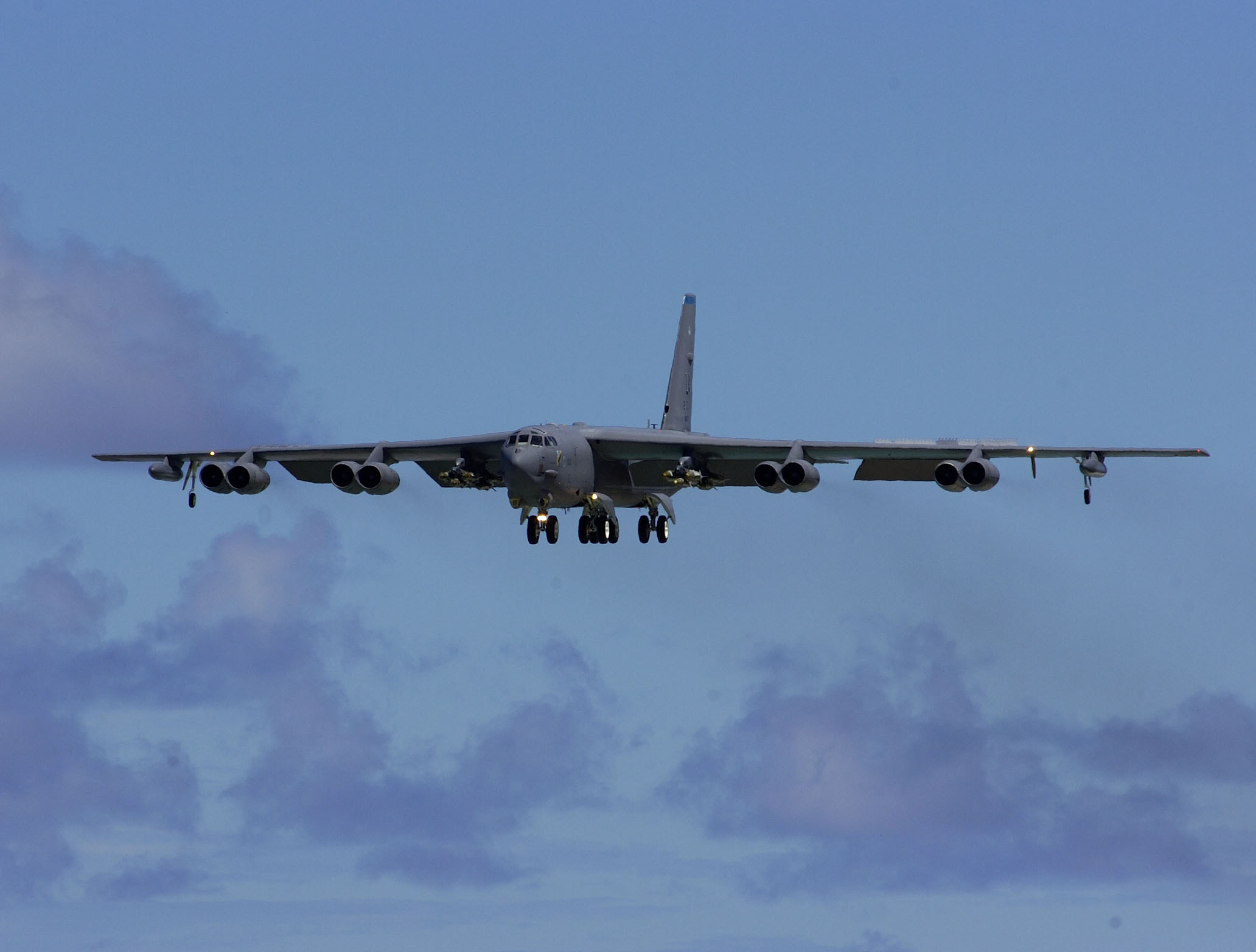 U.S. Air Force Lt. Col. Larry Littrell prepares to land a B-52 Stratofortress aircraft as he surpasses his 5,000-hour mark at an undisclosed location April 4, 2006. Littrell is currently assigned to the 40th Air Expeditionary Group.